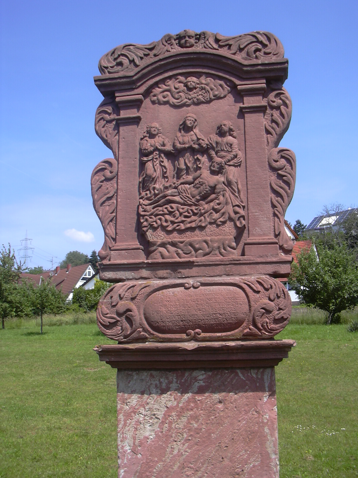 Kahl Valley near St. Mary in the Rough Wind, Alzenau/Kälberau, Bavaria/Germany: Jesus is laid in the tomb